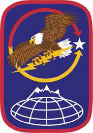 Shoulder Sleeve Insignia of the 100th Missile Defense Brigade